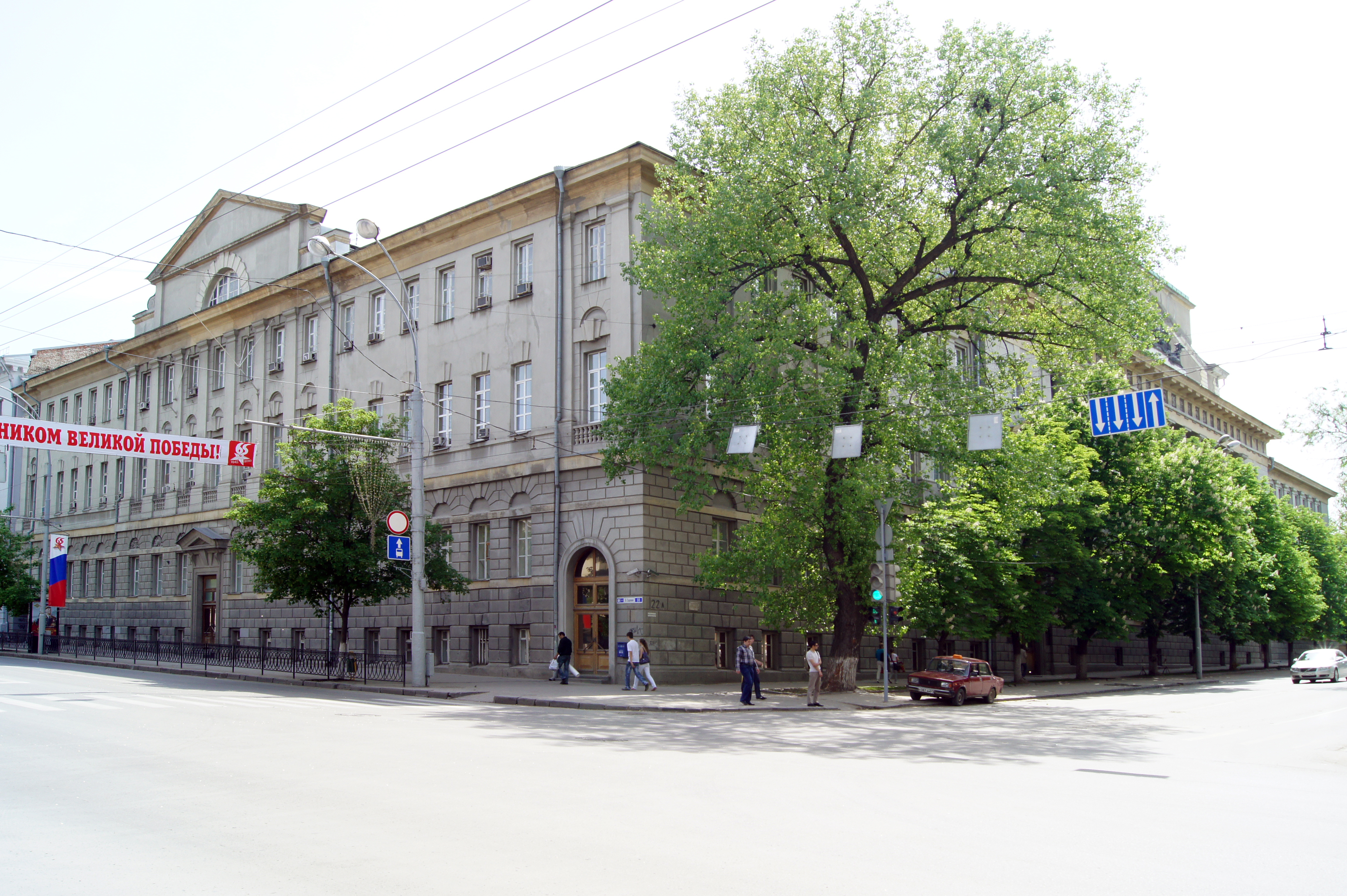 Gosbank Building (Rostov-on-Don)